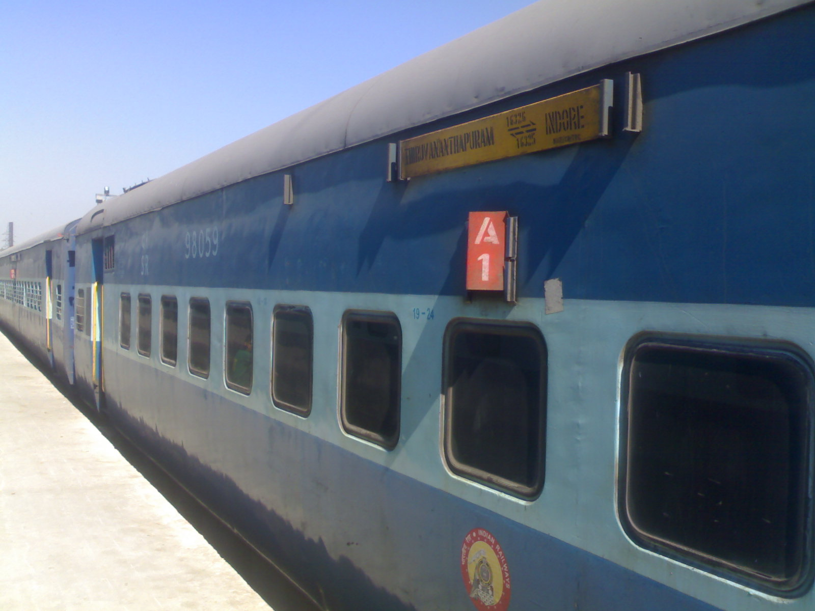 An AC Coach in Indore Ahilyanagari Express